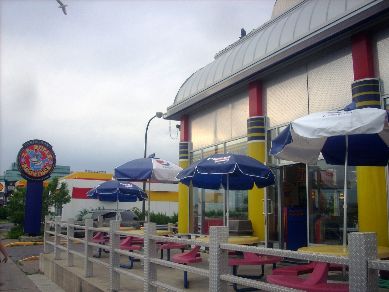 Pepsi logos photographed in Montreal, Quebec, Canada at the La Belle Province on Décarie Blvd.